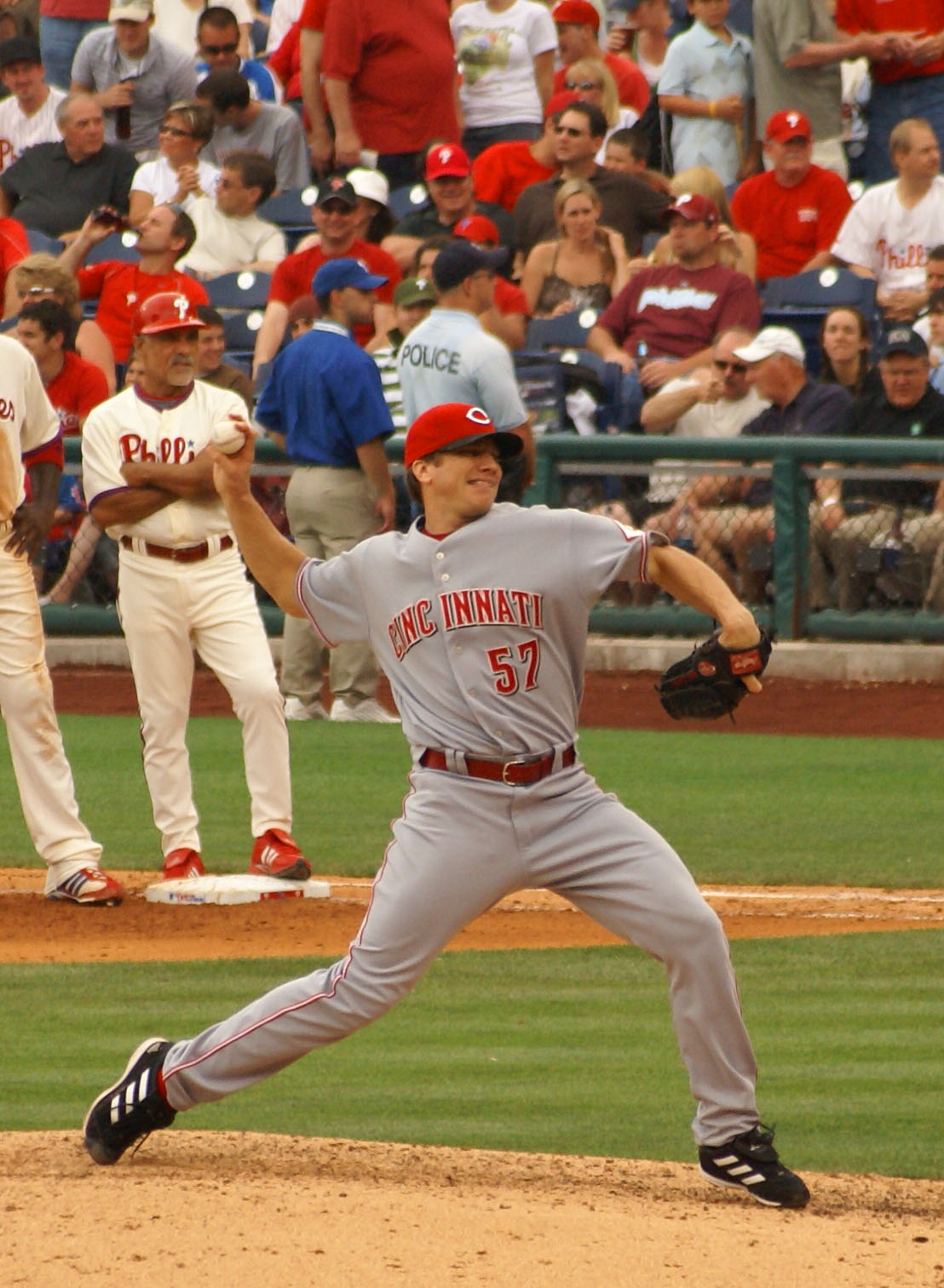 Description Mike Lincoln warming up after entering the game to face the Phillies Date06/05/2008SourceI created this work entirely by myself.AuthorBlevine37 (talk) 19:36, 10 June 2008 . . Blevine37 . . 1,108×1,513 (287 KB) Mike Lincoln warming up after entering the game to face the Phillies